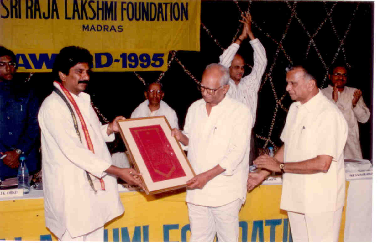 I,P.Yugesh Narayan, being Trustee of Sri Raja-Lakshmi Foundation, am owner of the photograph.